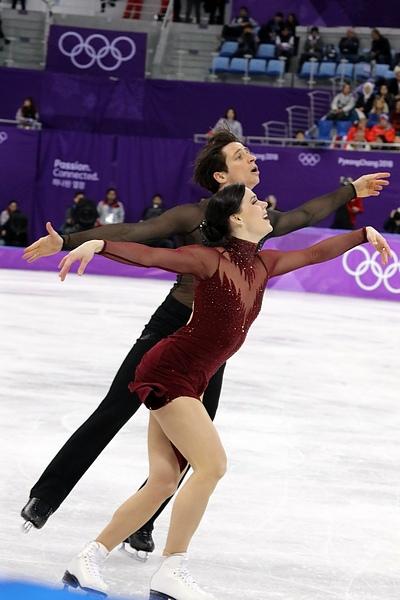 Tessa Virtue and Scott Moir at the 2018 Winter Olympic Games in PyeongChang